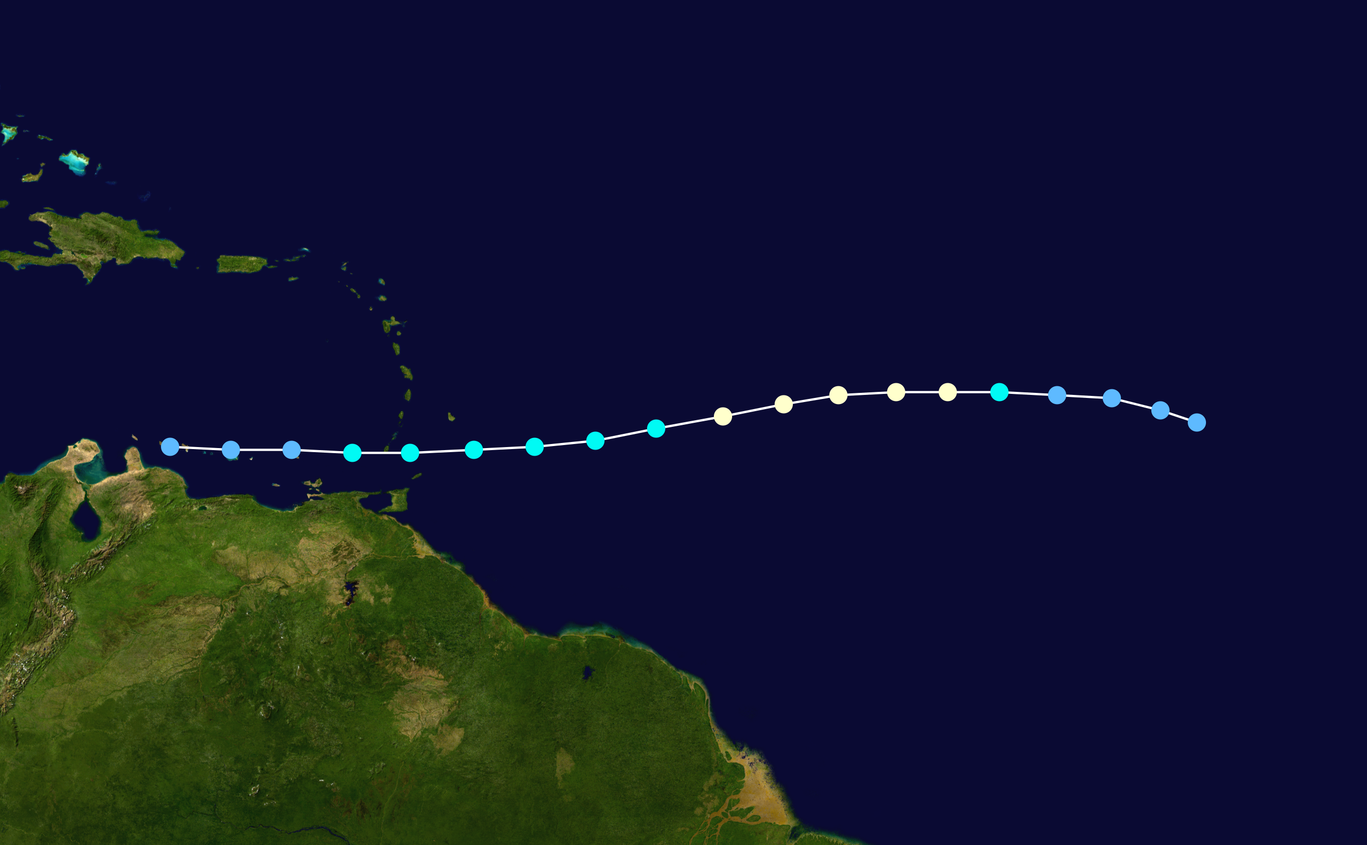 Hurricane Cora (1978) track. Uses the color scheme from the Saffir-Simpson Hurricane Scale.